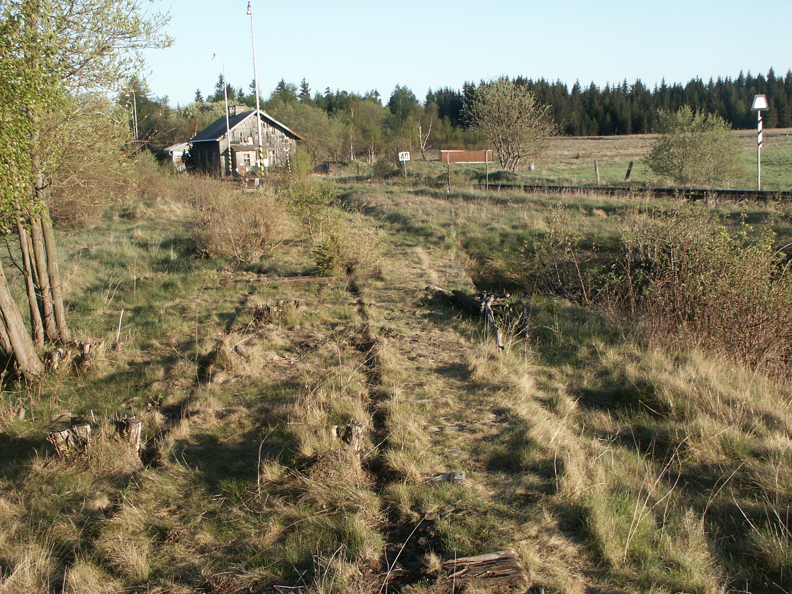 Abolished railway line Křimov-Reitzenhain, beginning section at the railway station Křimov